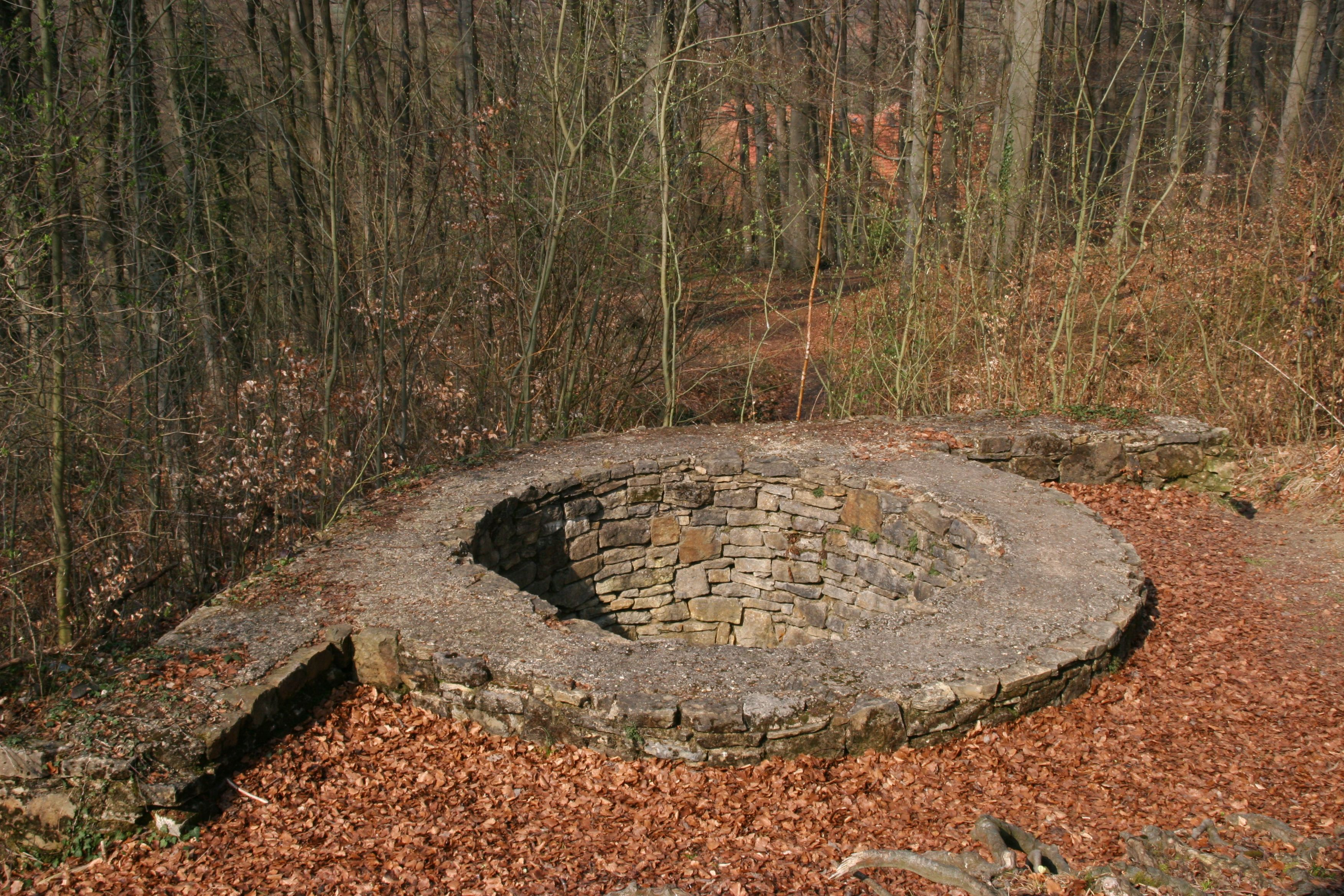 Rulle: the roundtower of the Wittekind-Castle